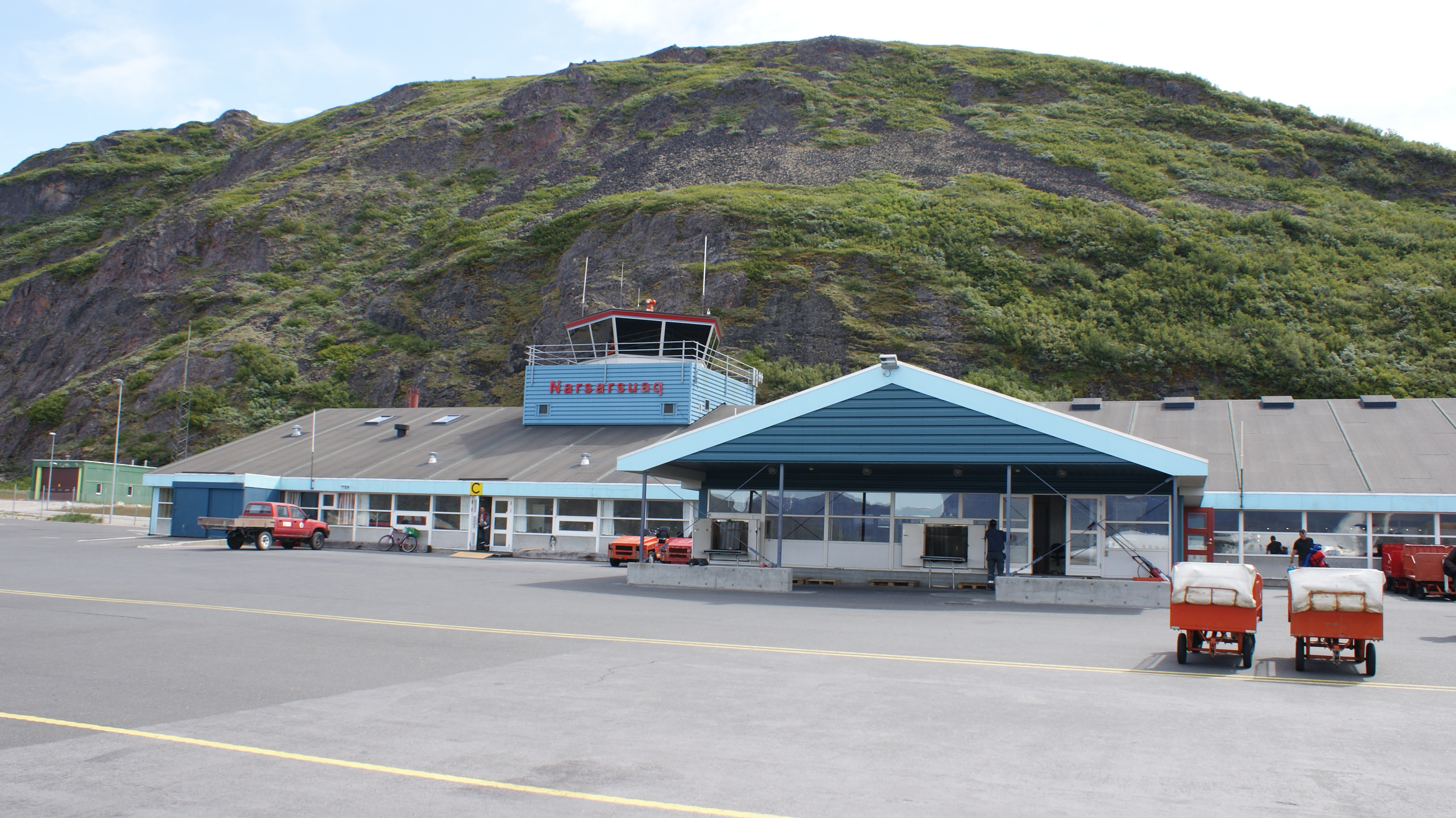 Narsarsuaq Airport, Greenland. Terminal from the tarmac.